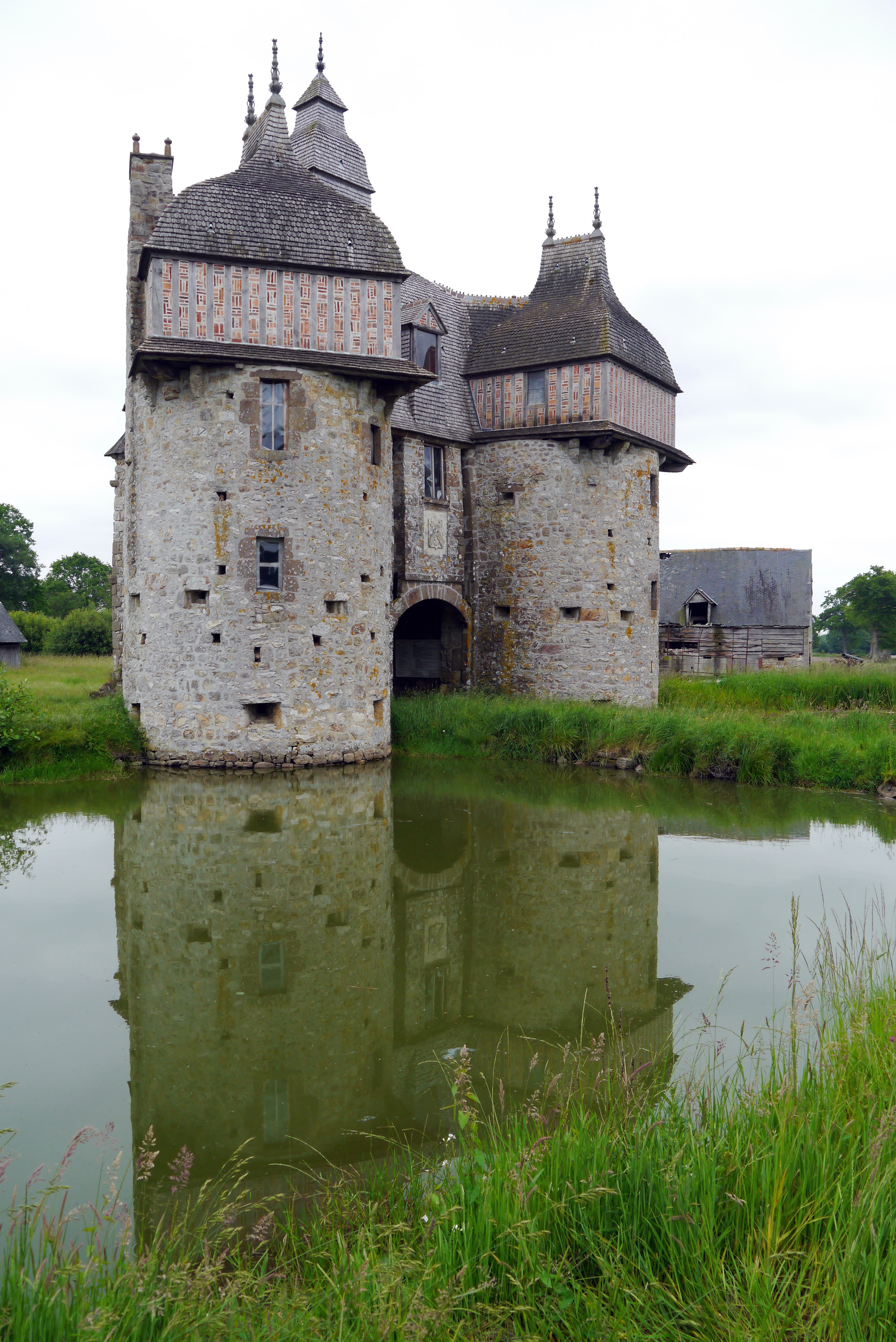 La Haute-Chapelle, Orne, France. Manoir de la Saucerie.